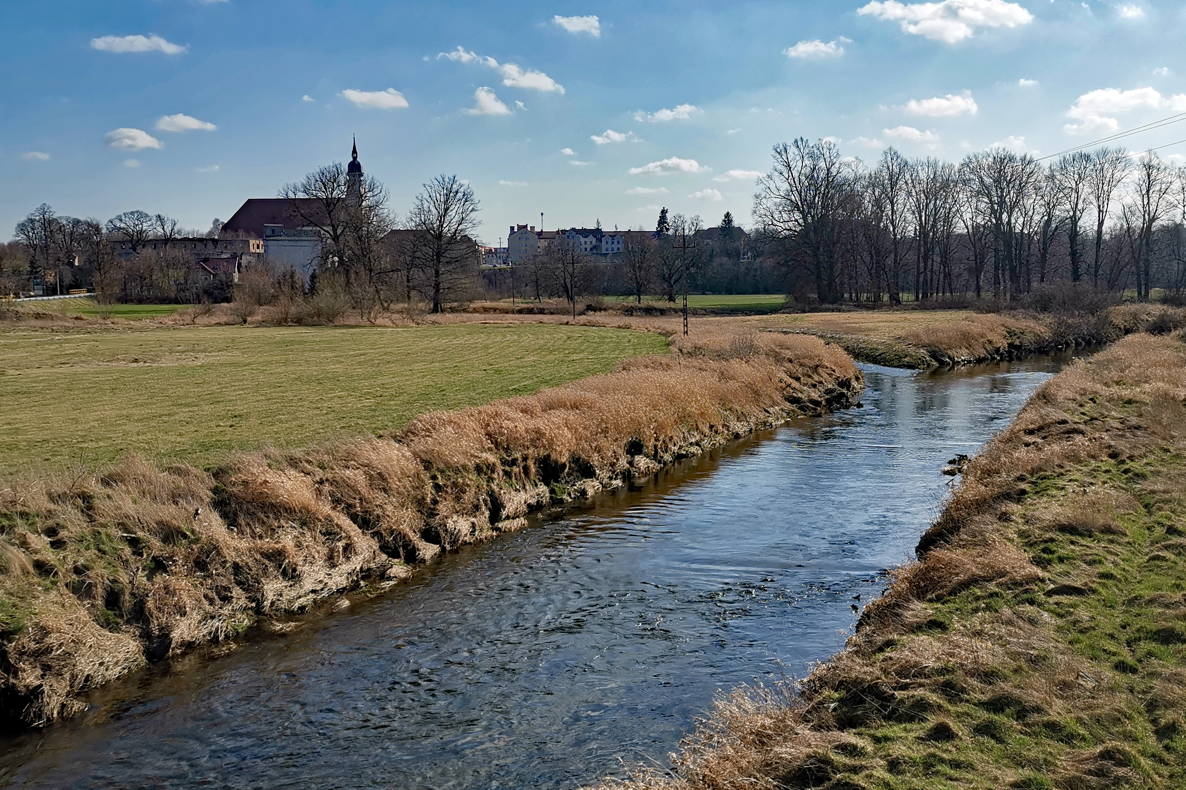 Nowogrodziec (Lower Silesian Voivodeship, Poland)